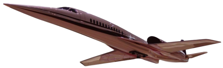 Aerion SBJ model, background clipped